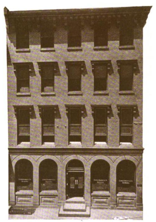 Offices of Charles D. Barney & Co. (predecessor of Smith Barney) on Fourth Street (122-124) in Philadelphia, PA. Photo c. 1911